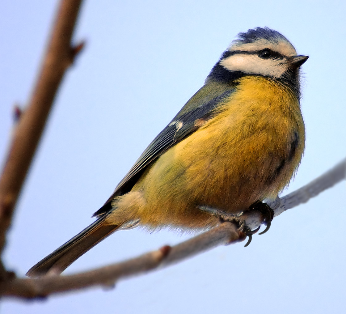 This image shows a Blue tit (Cyanistes caeruleus, old Parus caeruleus).